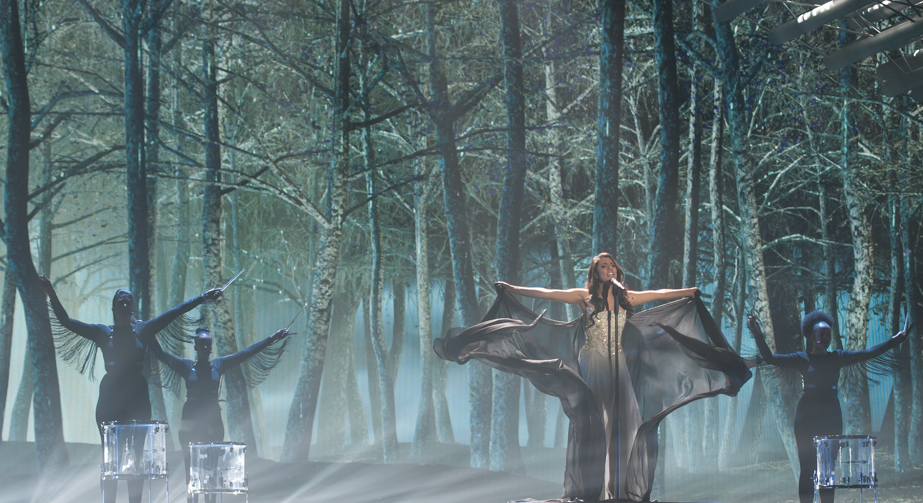 Eurovision Song Contest Vienna 2015: Mélanie René